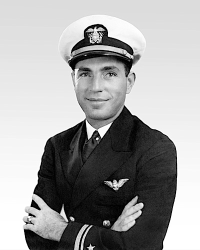 Lieutenant Junior Grade Stephen Jurika, Jr.